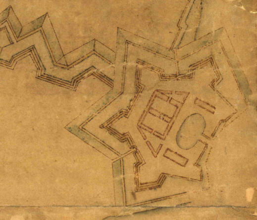 Drawing showing the original layout of the Kastellet citadel in Copenhagen, Denmark, in c. 1648